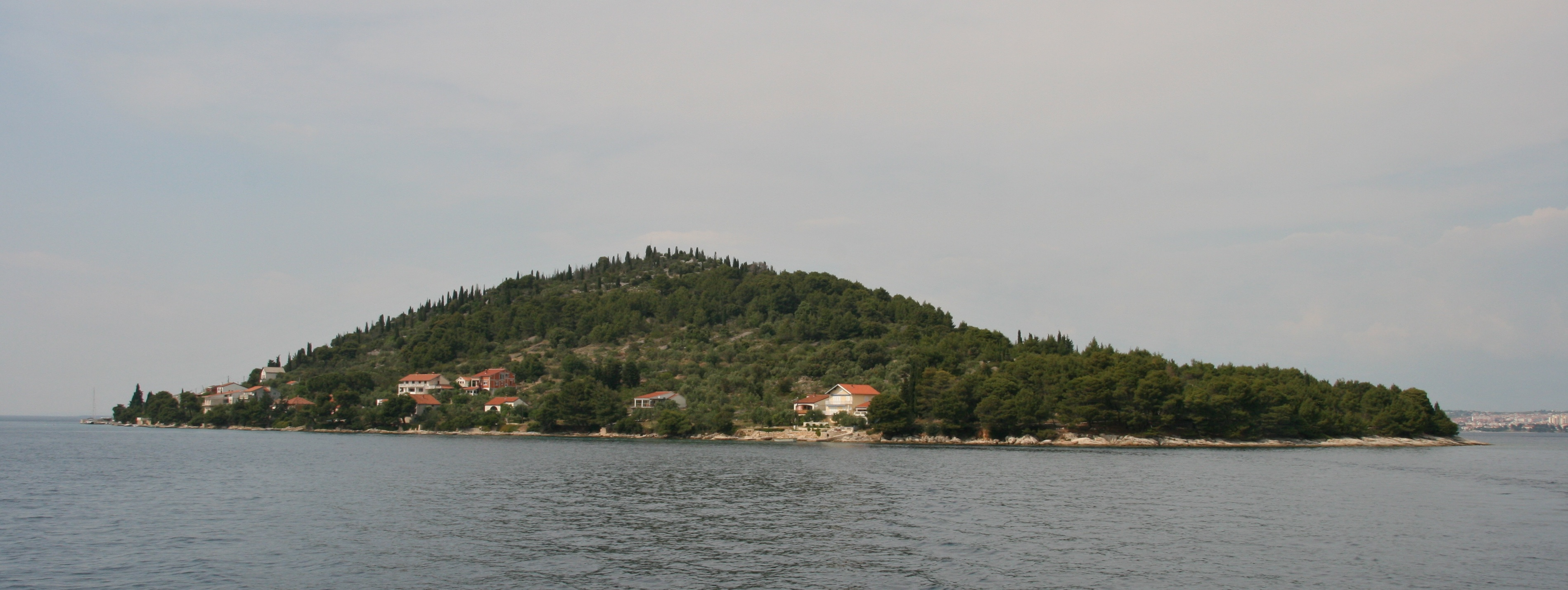 Island of Ugljan. Near Zadar, Croatia.